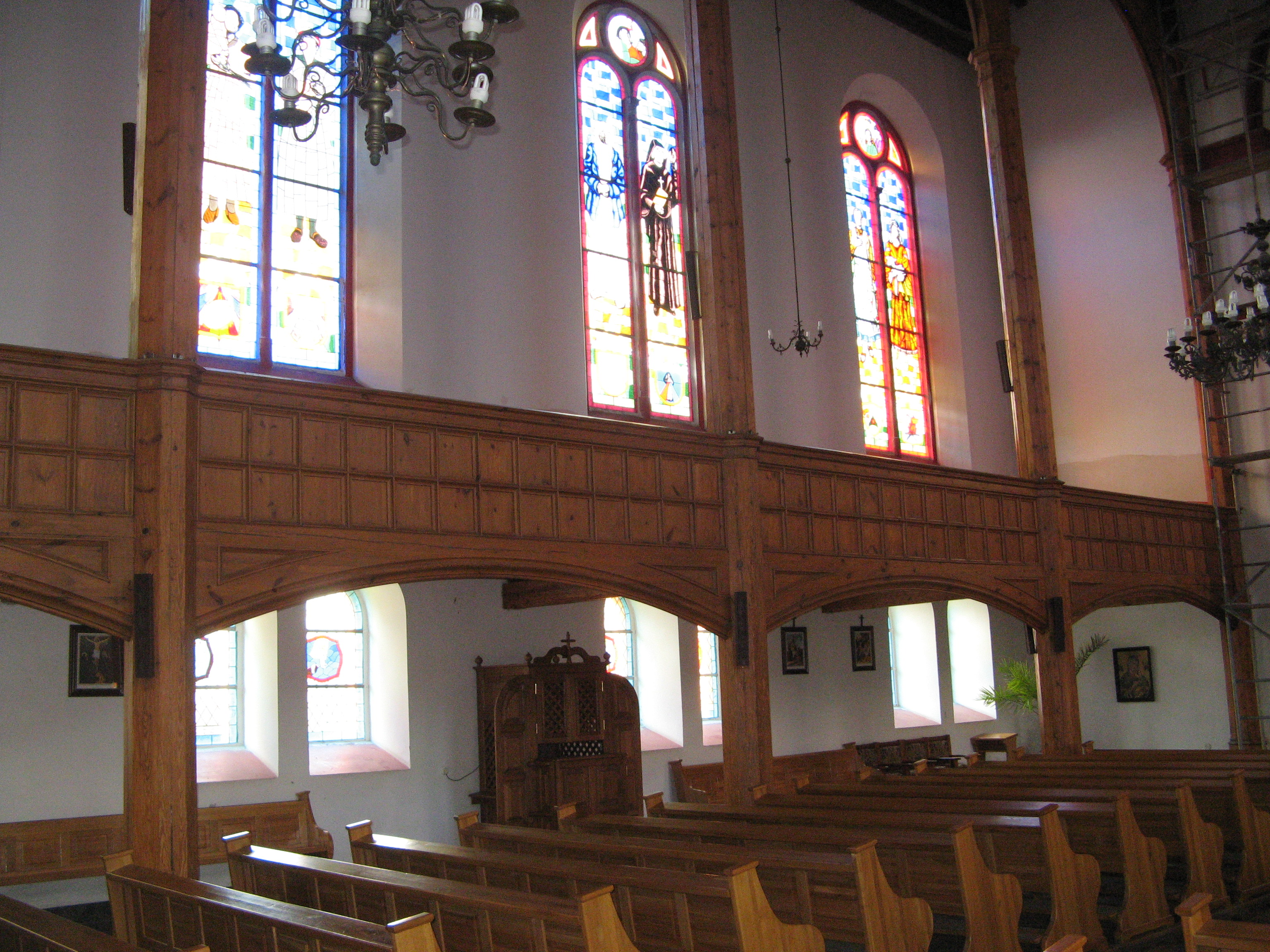 Interior of St. Stephen church in Barwice